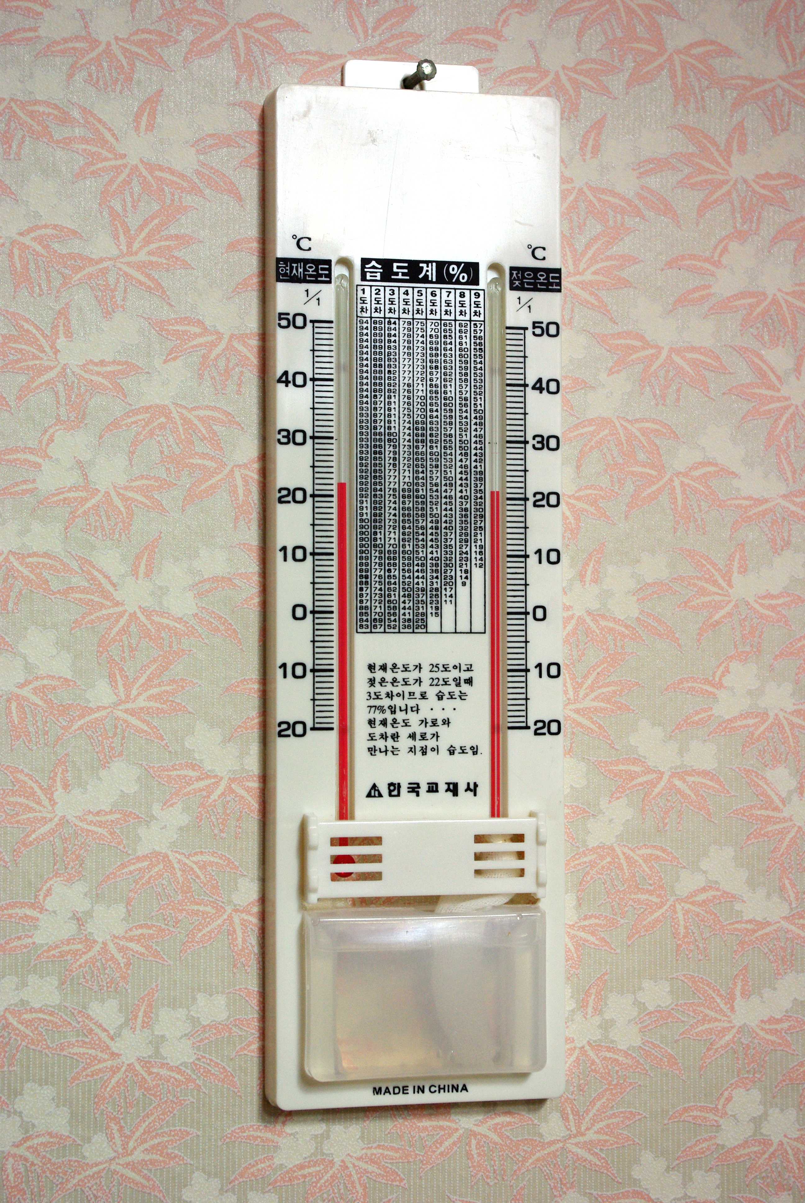 A Wet dry hygrometer sold in South Korea